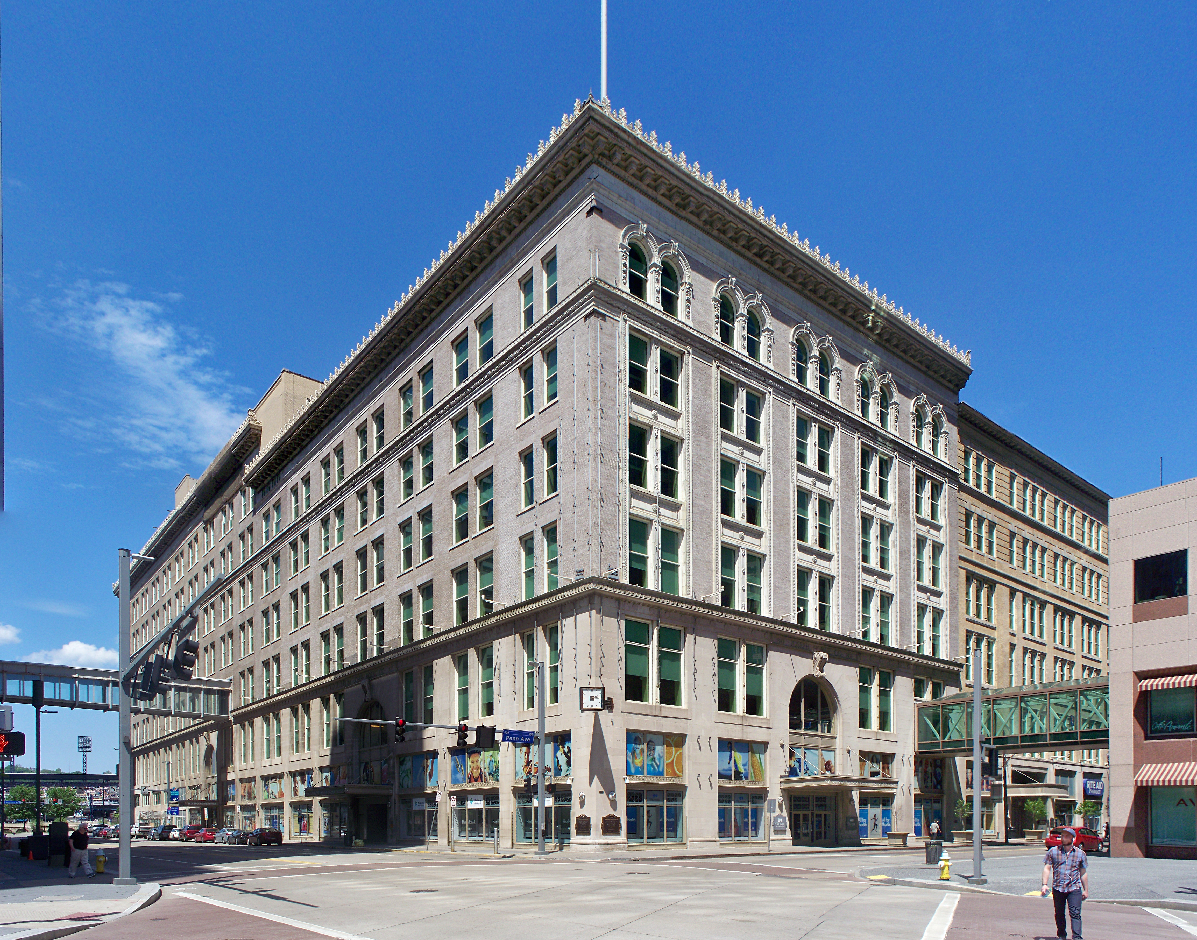 The old Joseph Horne department store (architects Peabody & Stearns), Penn Avenue and Stanwix Street, Pittsburgh